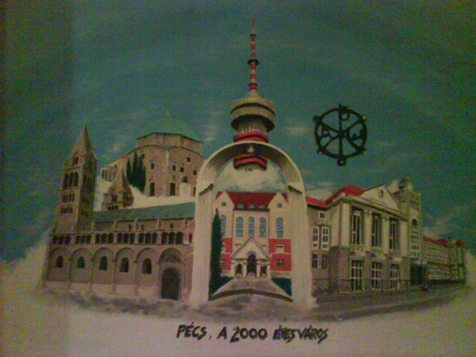 Painting on a wall in Szanto dormitory of the University of Pécs, Hungary.